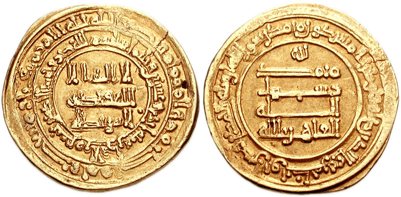 ISLAMIC, 'Abbasid Caliphate. al-Qahir. Second reign, AH 320-322 / AD 932-934. AV Dinar (20mm, 4.91 g, 9h). Tustar min al-Ahwaz mint. Dated AH 321 (AD 932/3). Kalima in four lines across field, monogram above; Quran 30:4-5 in outer margin, mint formula and AH date in inner margin / Continuation of Kalima across field, “li-’illah” above, name of al-Radi below; Umayyad “Second Symbol” in outer margin. Album 250. Good VF.